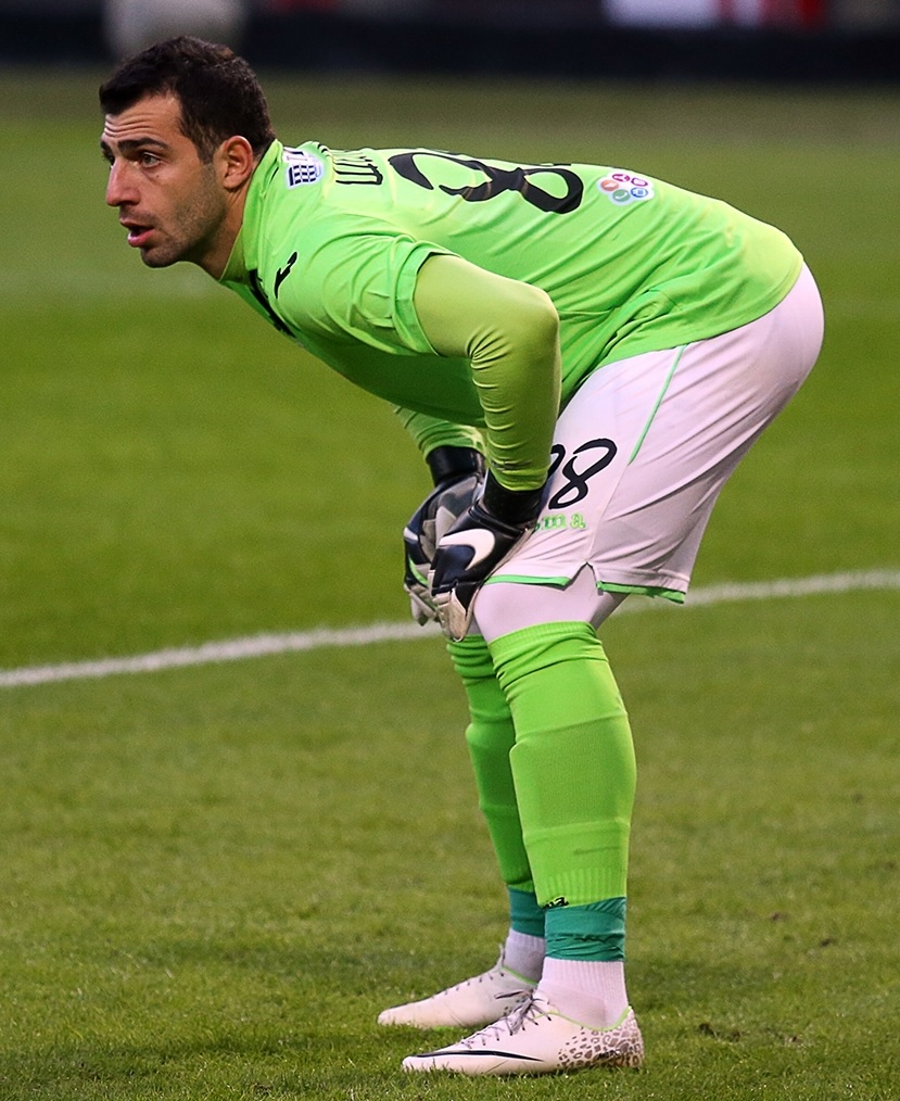 Giorgi Shelia playing for FC Ufa against FC Lokomotiv Moscow on 13 March 2016.